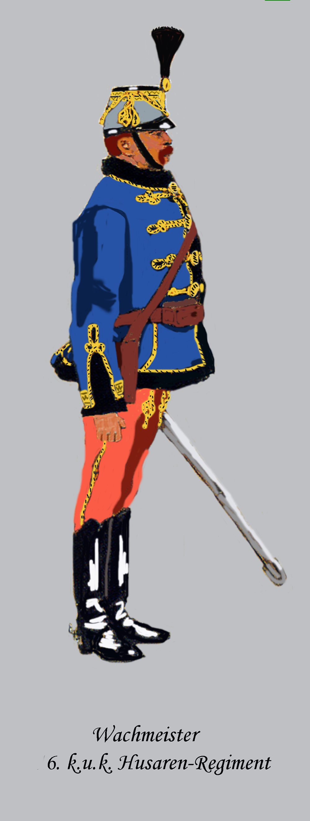 Wachtmeister (Master Sergeant) of the Austro-Hungarian 6th Hussars Regiment. Uniform with fur coat - in use until ca. 1916